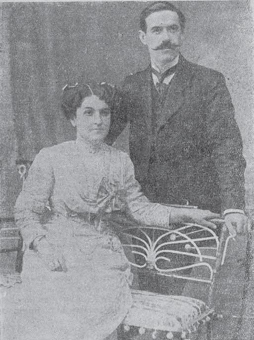 Milan and Katerina Genovi from Skopie - IMARO members